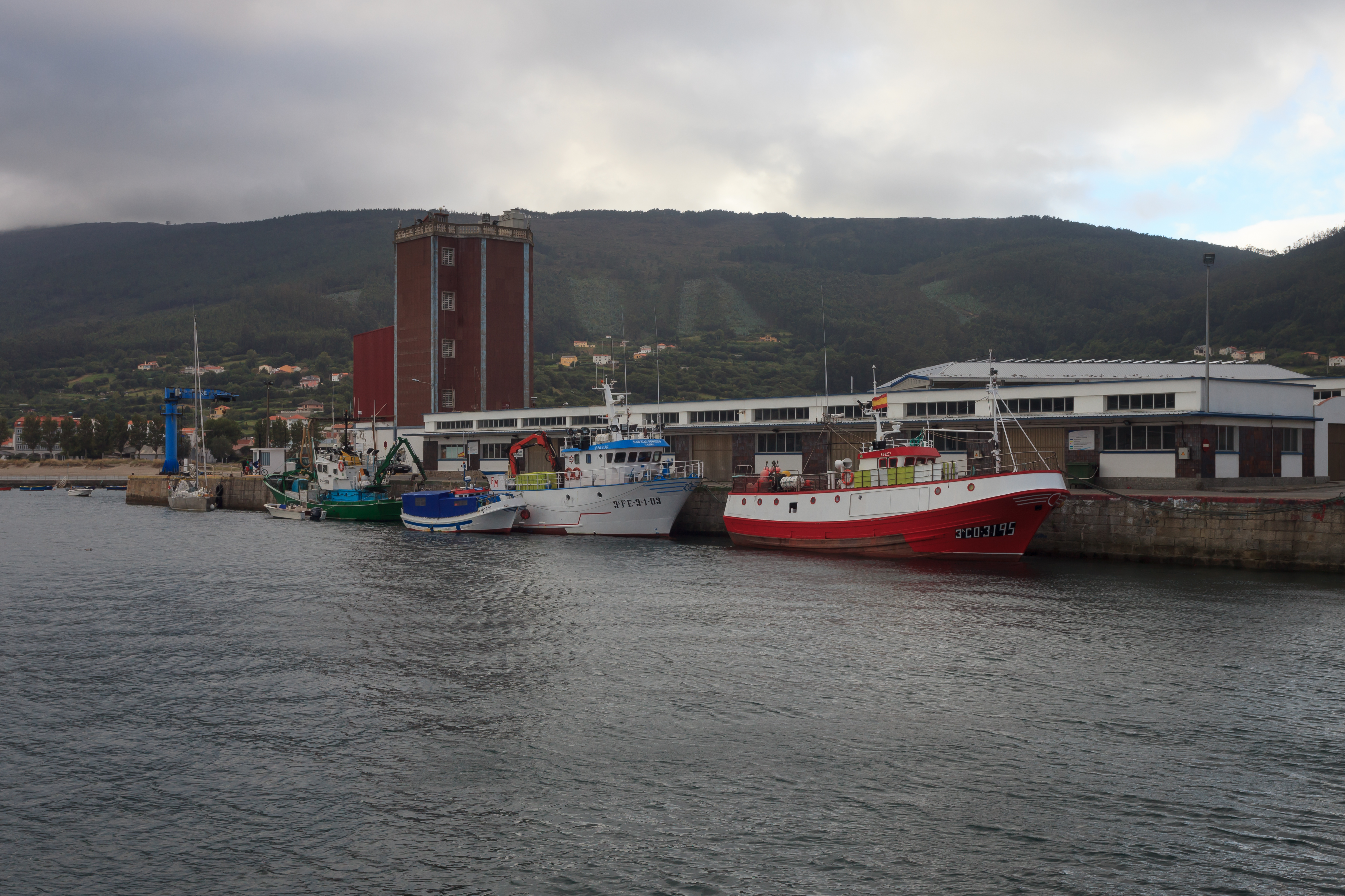 Port of Cariño. Galicia (Spain)